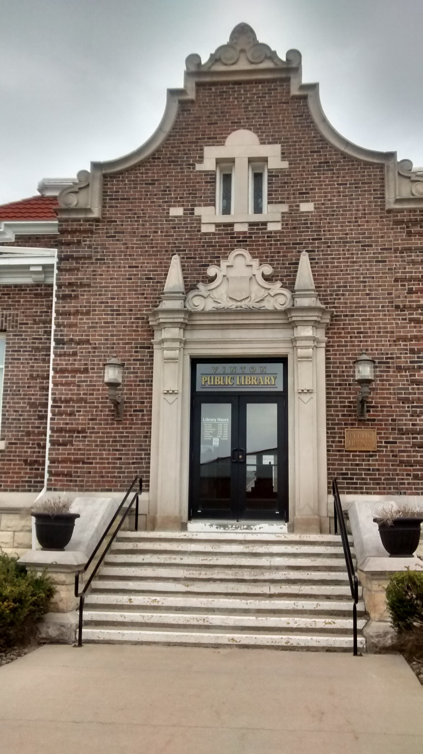 Vinton Public Library